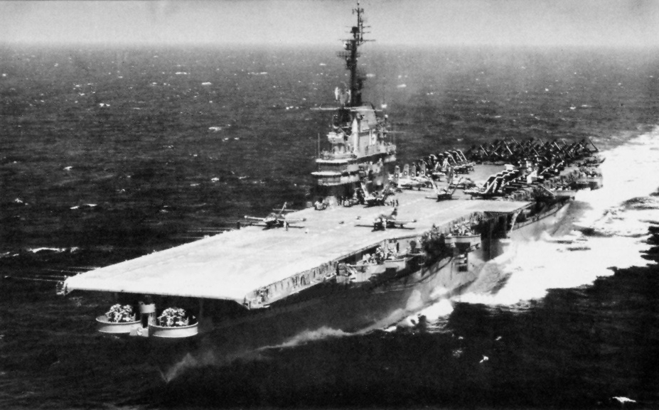 The U.S. Navy aircraft carrier USS Randolph (CVA-15) underway in 1955. Randolph with Air Task Group 181 (ATG-181) aboard was deployed to the Mediterranean Sea from 30 November 1954 to 18 June 1955.